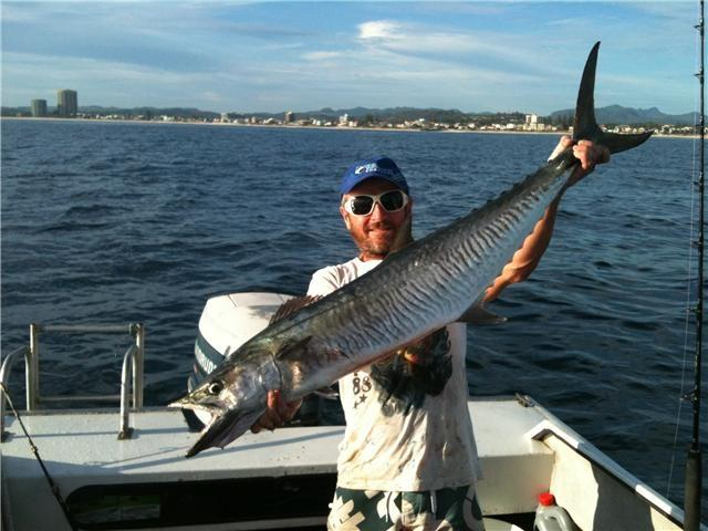 Scomberomorus commerson, Palm Beach, Australia.